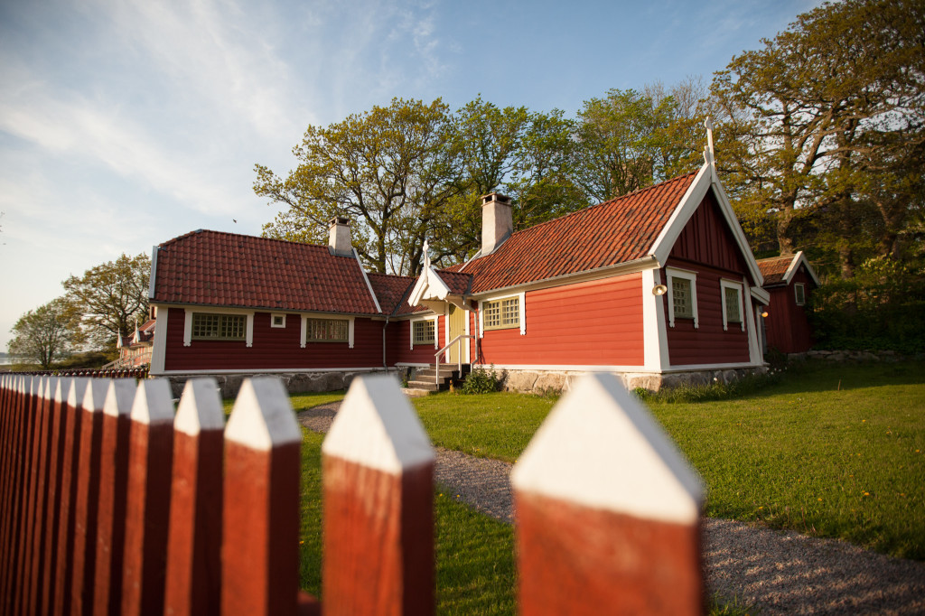 Sunset in Allmogebyn at Tjolöholm Castle